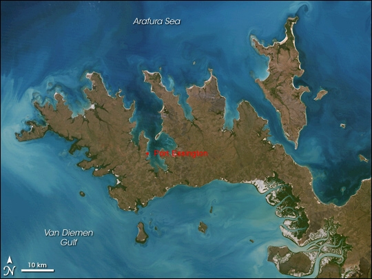 Cobourg Peninsula, Arnhem Land, Northern Territory, Australia